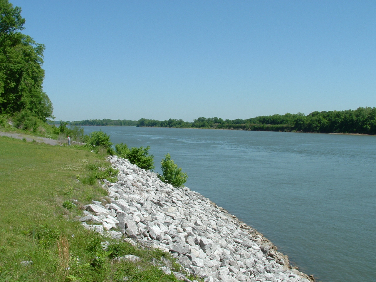 Tennessee River, as seen from Pittsburg Landing, Shiloh National Military Park, Tennessee, USA